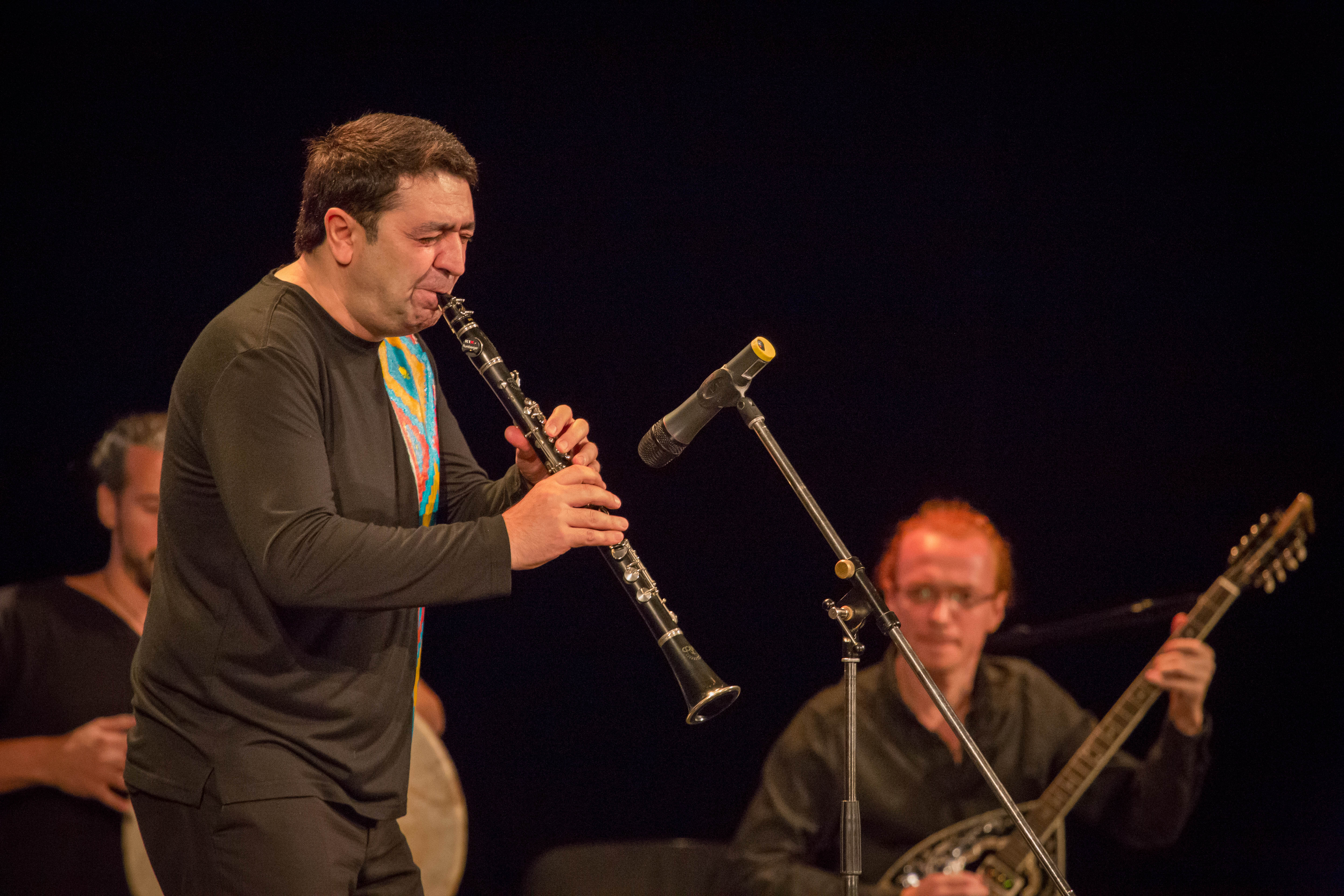 Norayr Barseghyan.